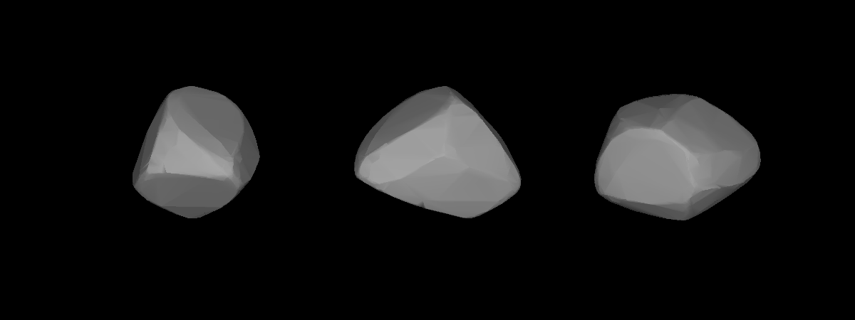 A three-dimensional model of 162 Laurentia that was computed using light curve inversion techniques.